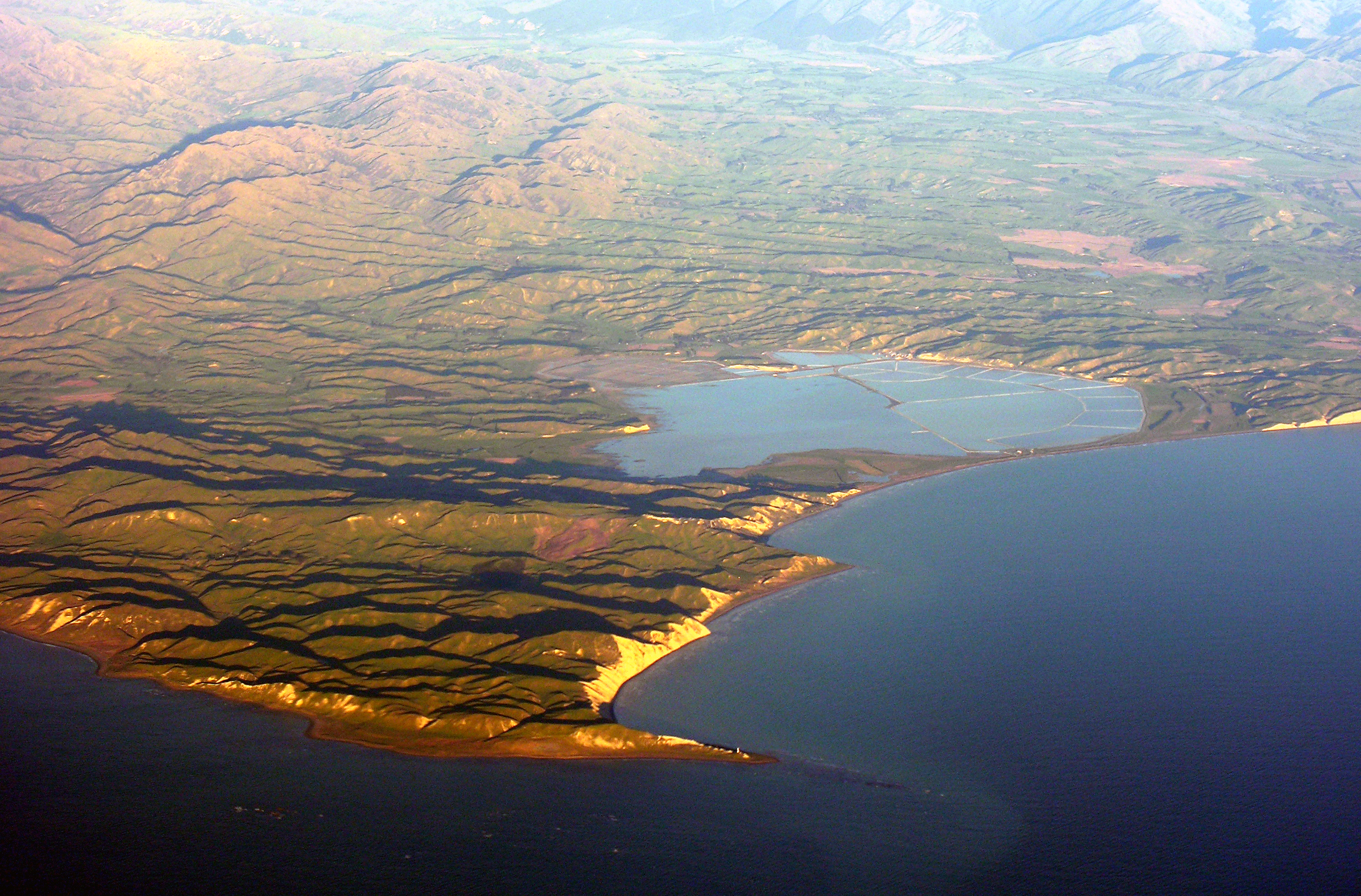 Sunrise at Cape Campbell and the Lake Grassmere salt works, Marlborough, New Zealand. En route Wellington to Christchurch.